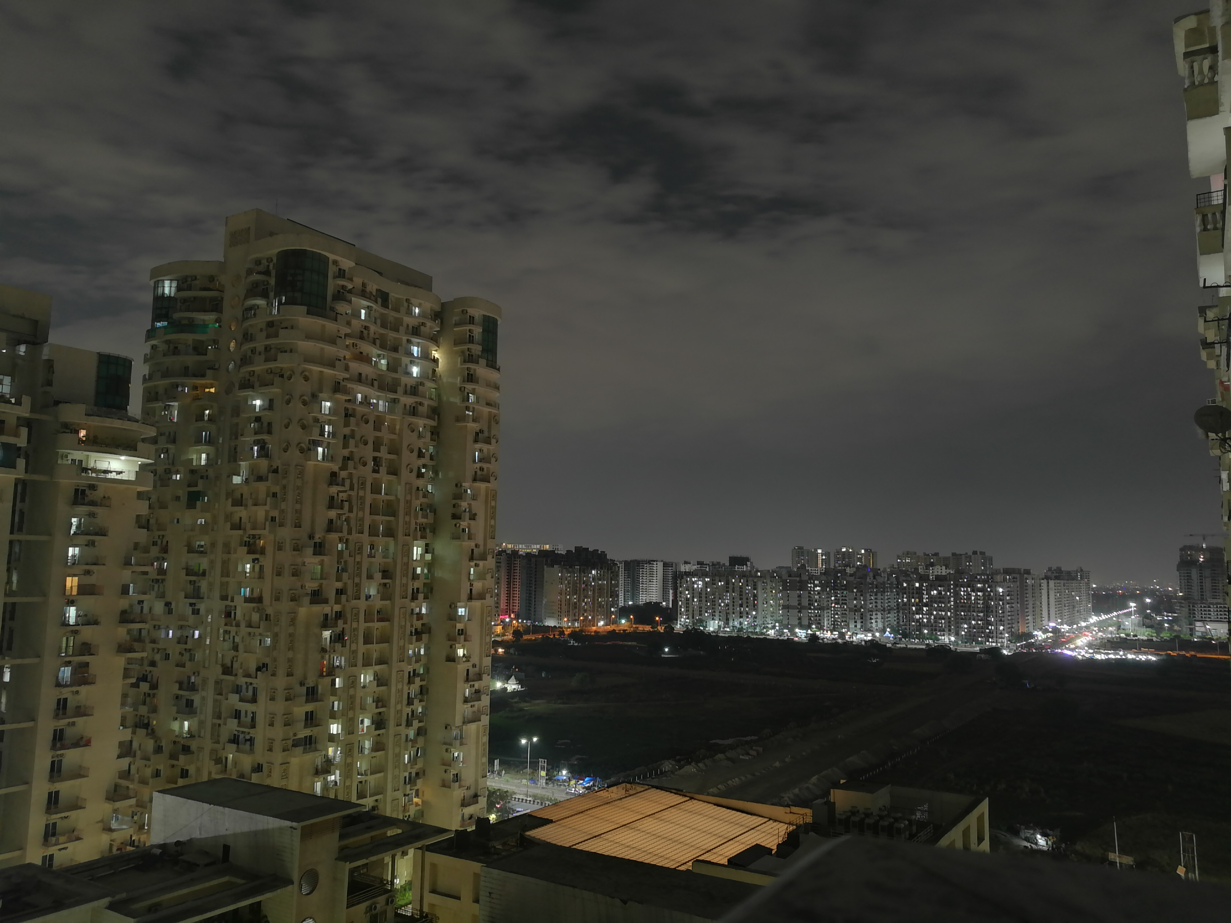 Night view of noida sector 78 - 76 Area